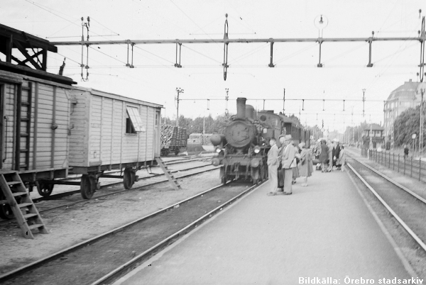 The train between Örebro and Svartån in 1937